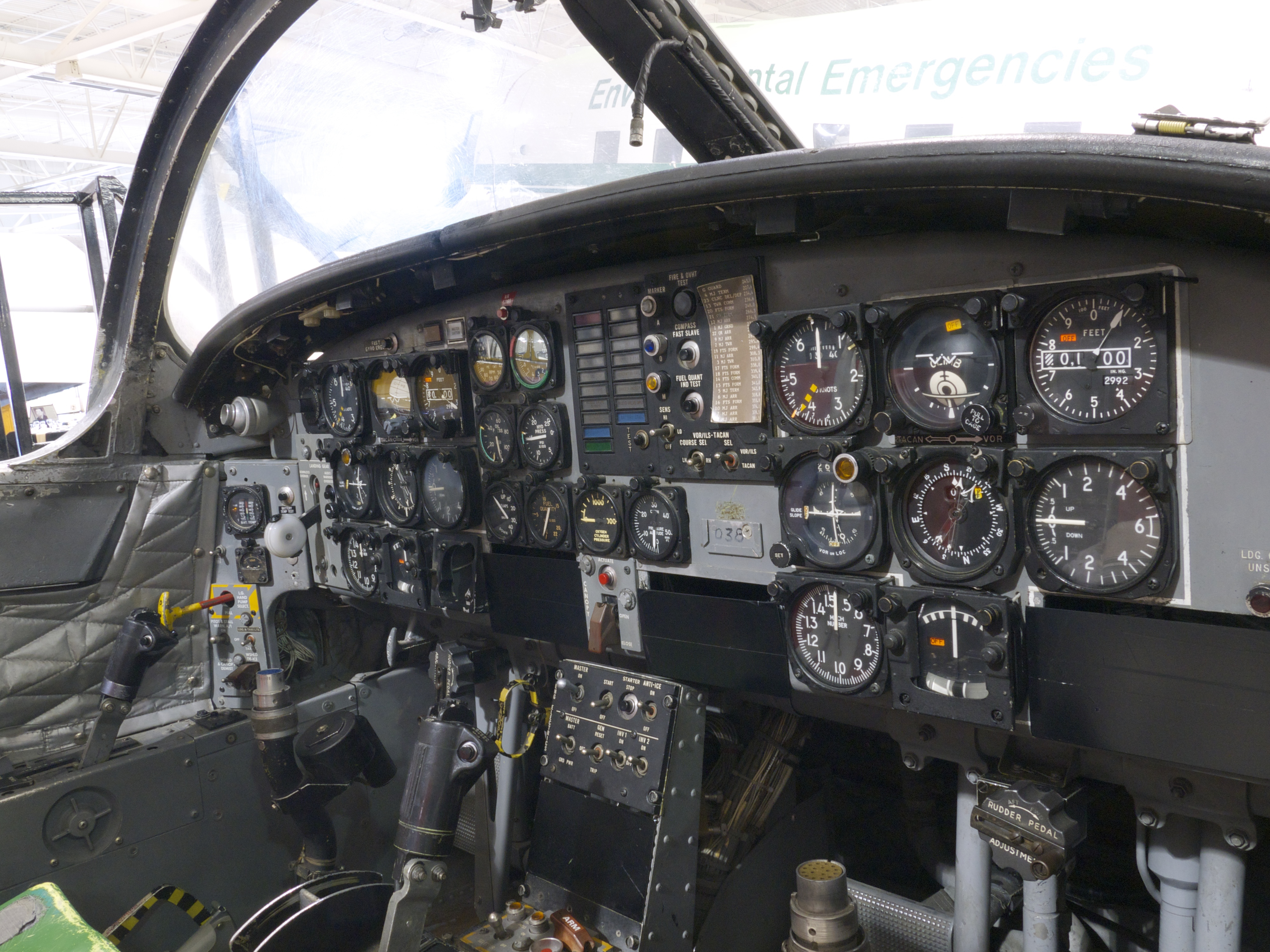 Canadair CT-114 Tutor cockpit instruments.